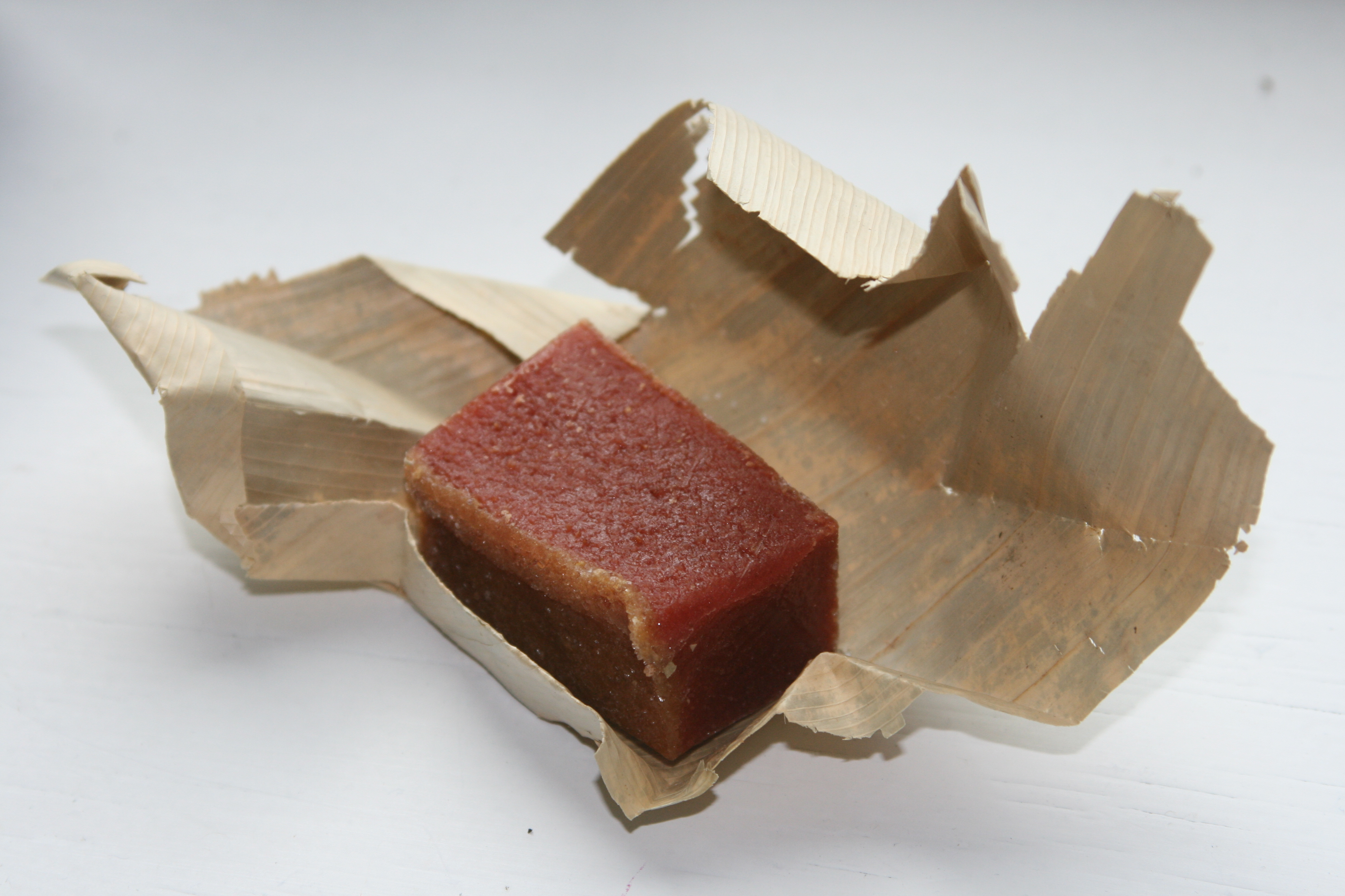 Colombian bocadillo